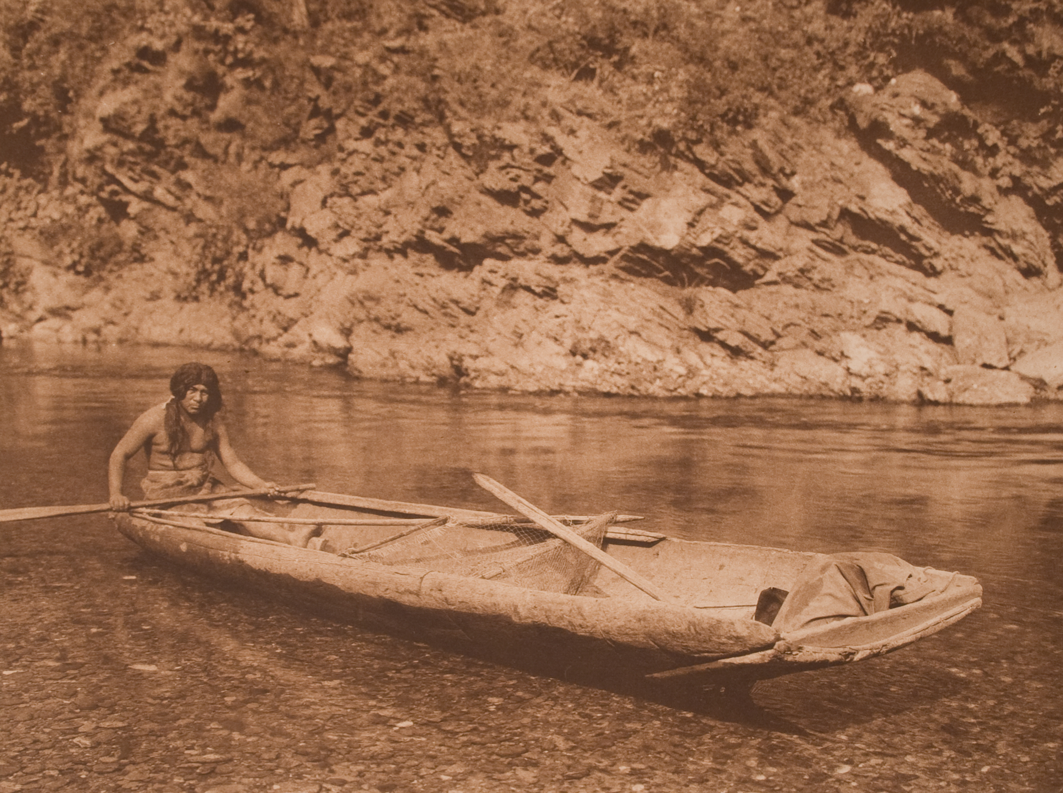 Title: Yurok Canoe on Trinity River Artist: Edward Sheriff Curtis Artist Bio: American, 1868 - 1952 Creation Date: printed 1923 Process: photogravure Credit Line: Gift of Edwin and Irene Weinrot Accession Number: 1997.018.008